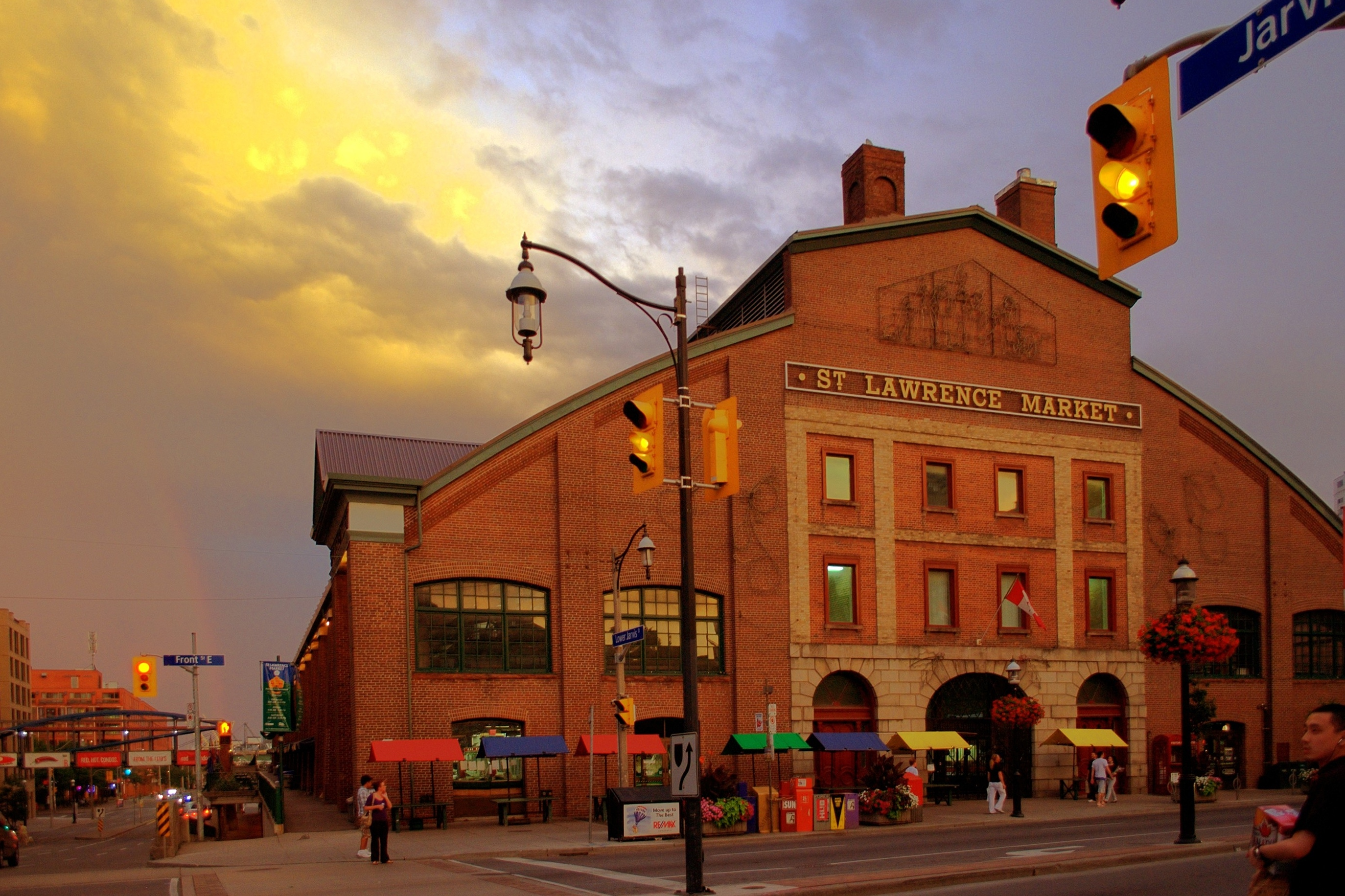 St Lawrence Market